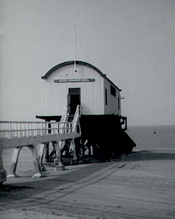 Spurn Lifeboat Station, Spurn Point, East Riding of Yorkshire, England.The Old Spurn Lifeboat Station in 1966